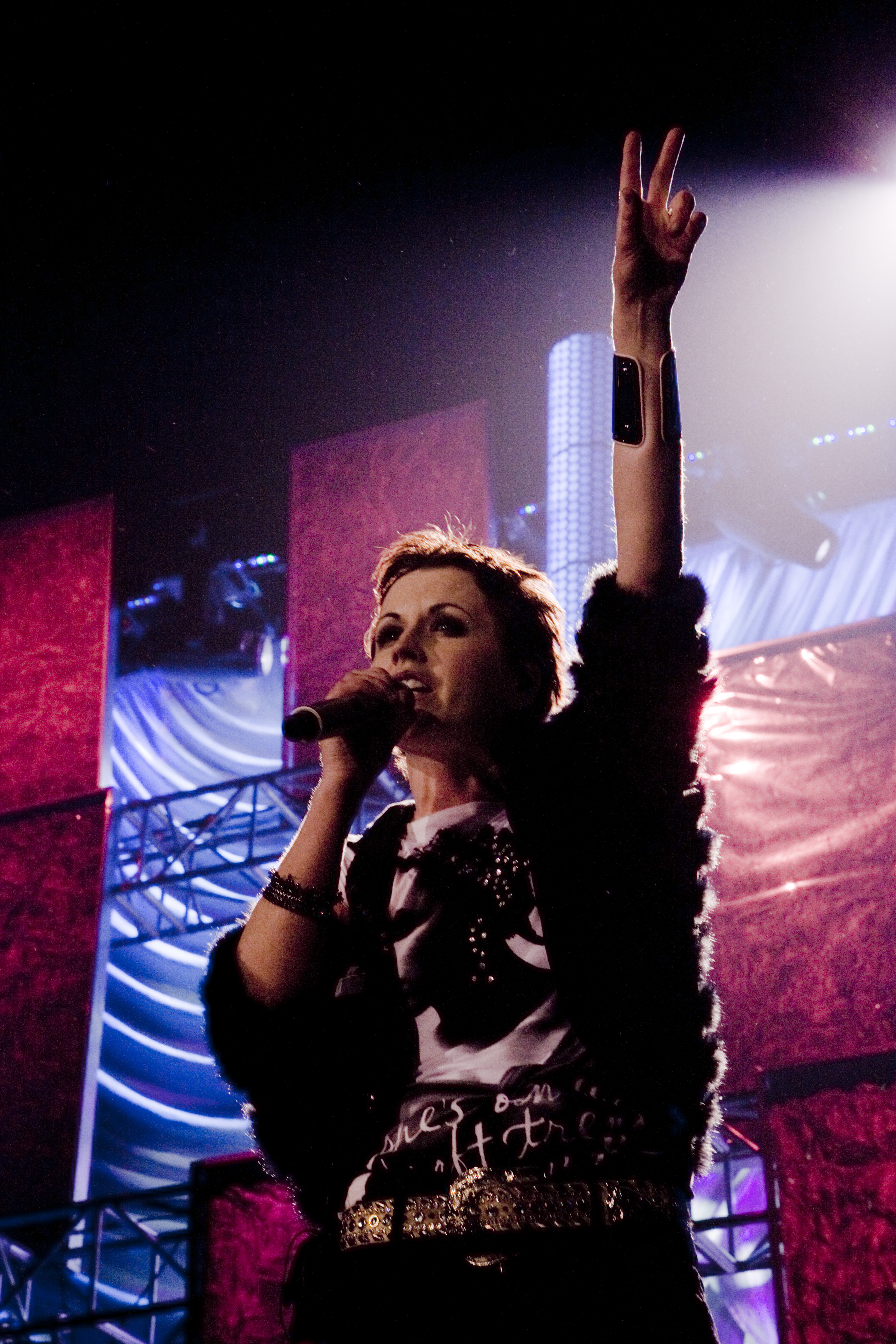 The Cranberries live in Barcelona 2010-03-13